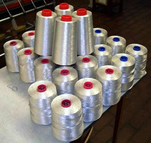 Galvanized tread ELITEX®.